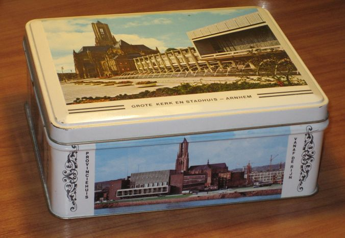 zelf gemaakte foto Tin containing cookies called Arnhemse meisjes (Arnhem girls), showing town hall and other buildings in Arnhem